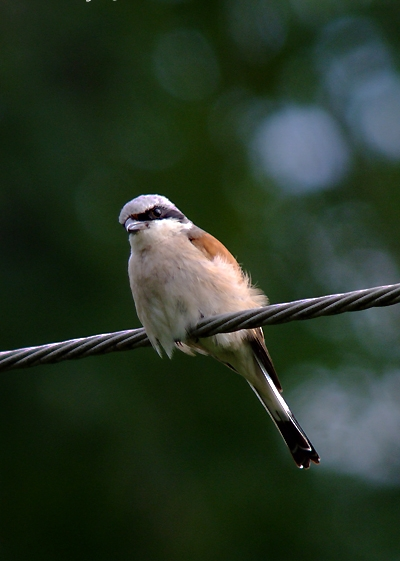 Adult male Red-backed Shrike